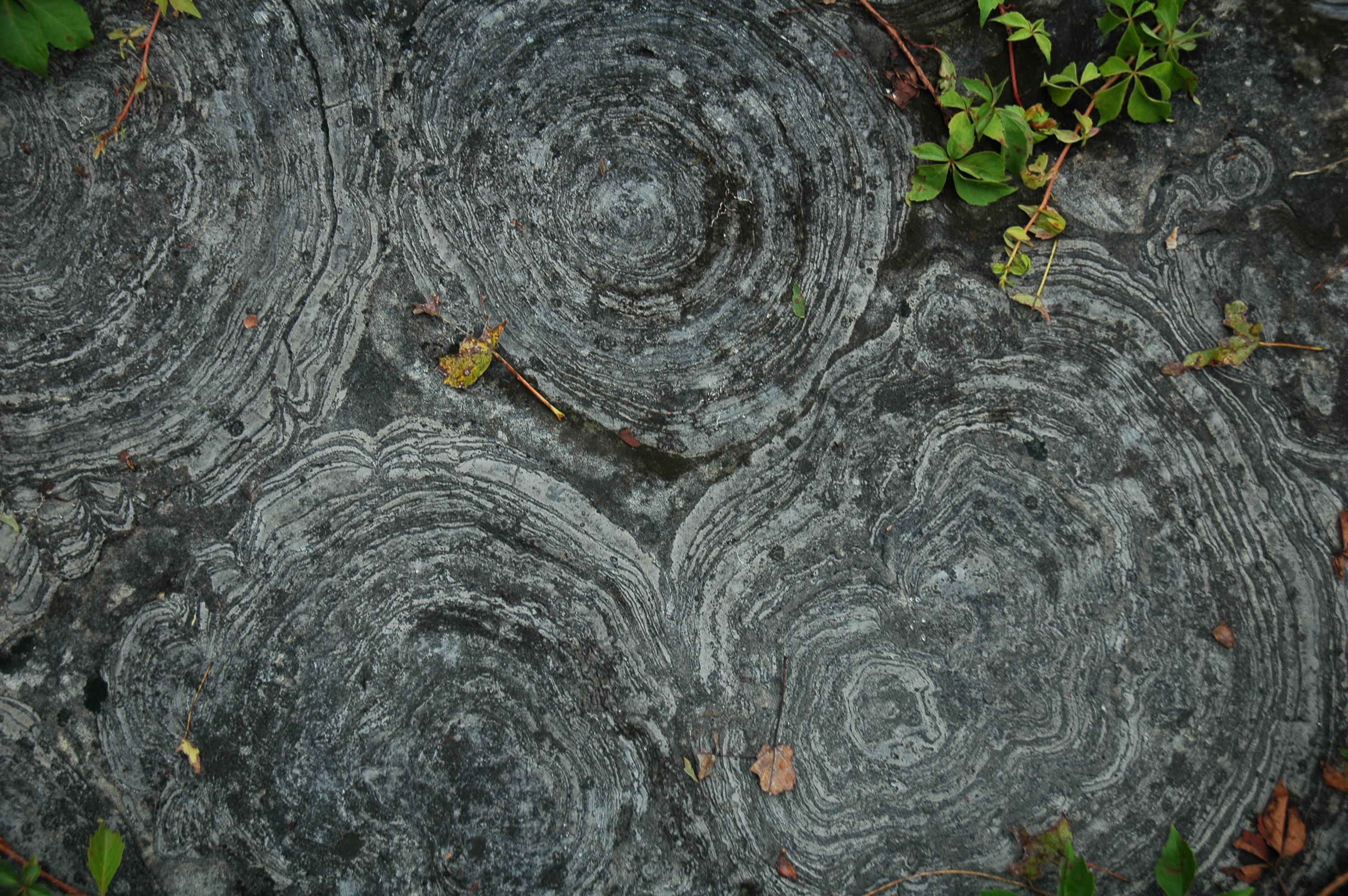 Stromatolite fossils from the Hoyt Limestone of Late Cambrian age from the Lester Park Road outcrop, west of Saratoga Springs in New York state, USA.